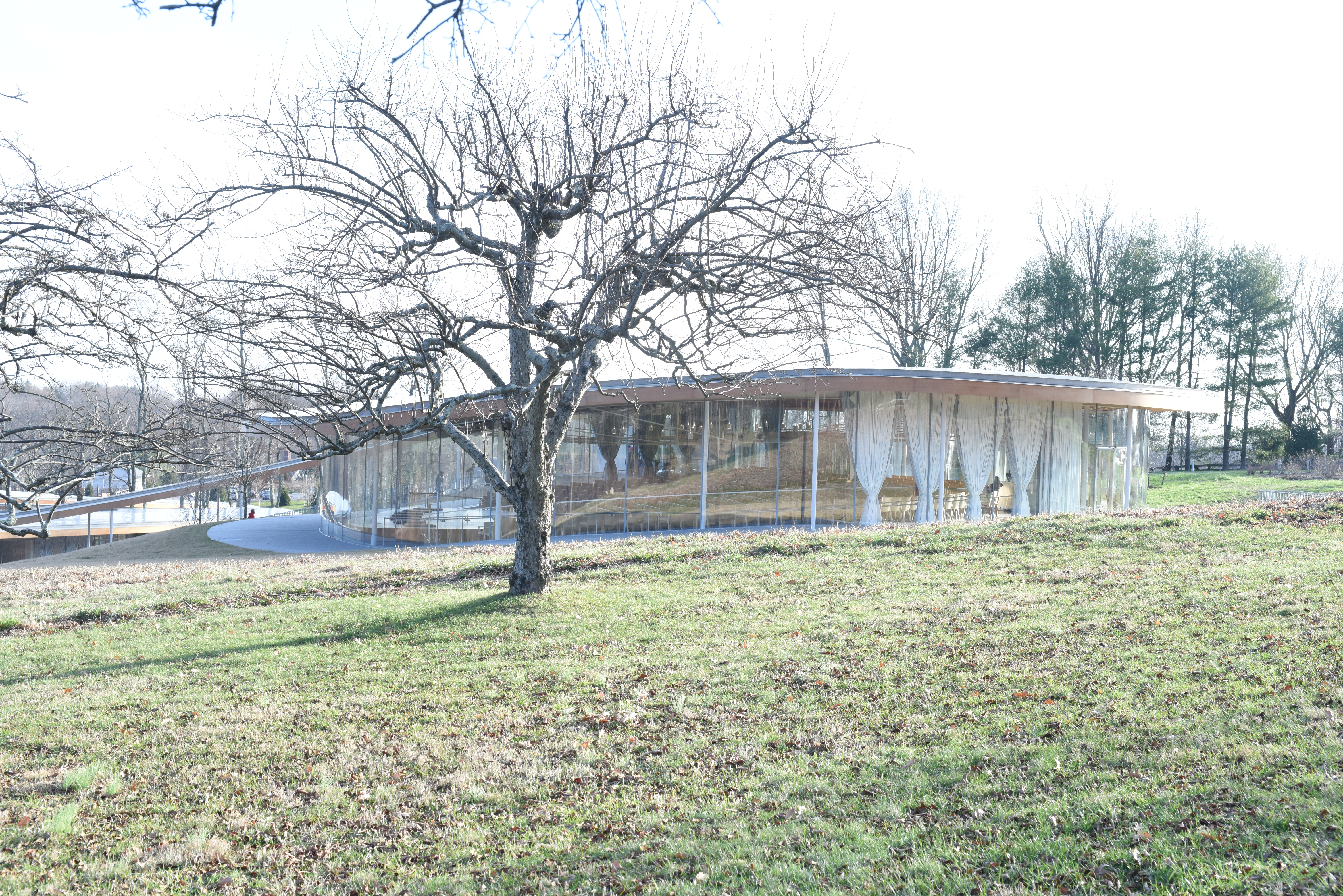 Grace Farms, 700 seat amphitheater, viewed from the outside.